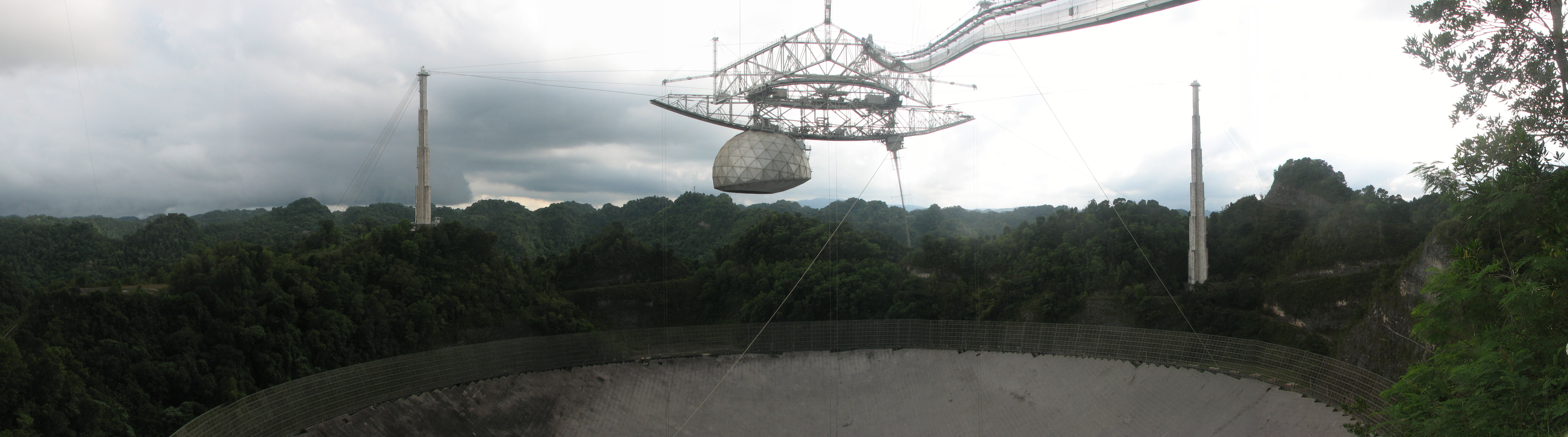 Panoramic photo of the radio telescope at the Arecibo Observatory, Arecibo, Puerto Rico. Stitched from five photos.